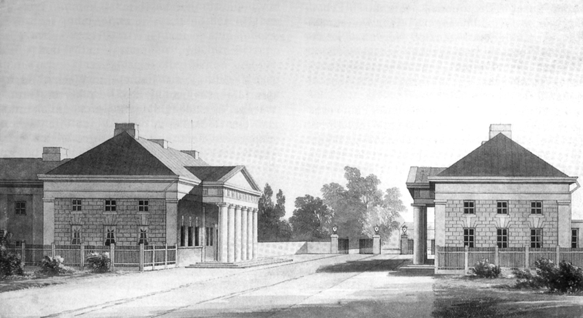 The Ostertorwache (“Guard house at the Ostertor“) am Ostertorsteinweg in Bremen, Germany, built 1828 by Friedrich Moritz Stamm.